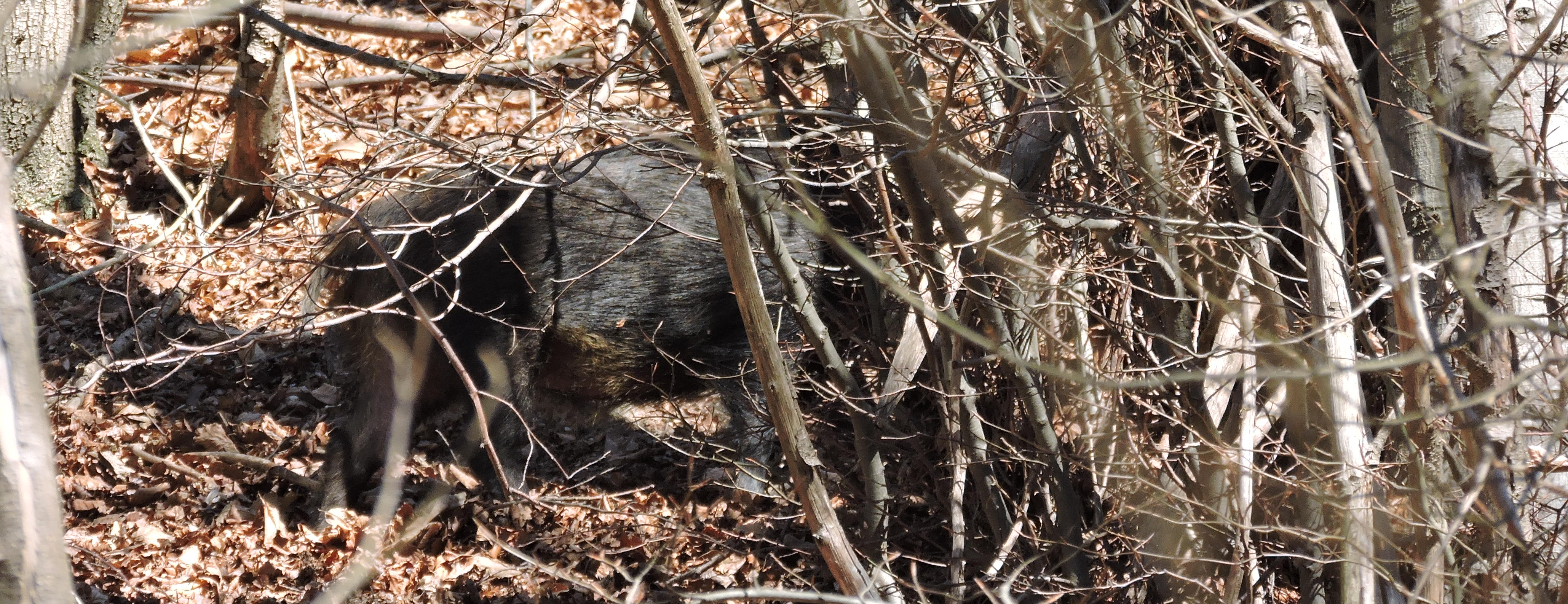 Ronco di Maglio (Q49961232) running wild boar